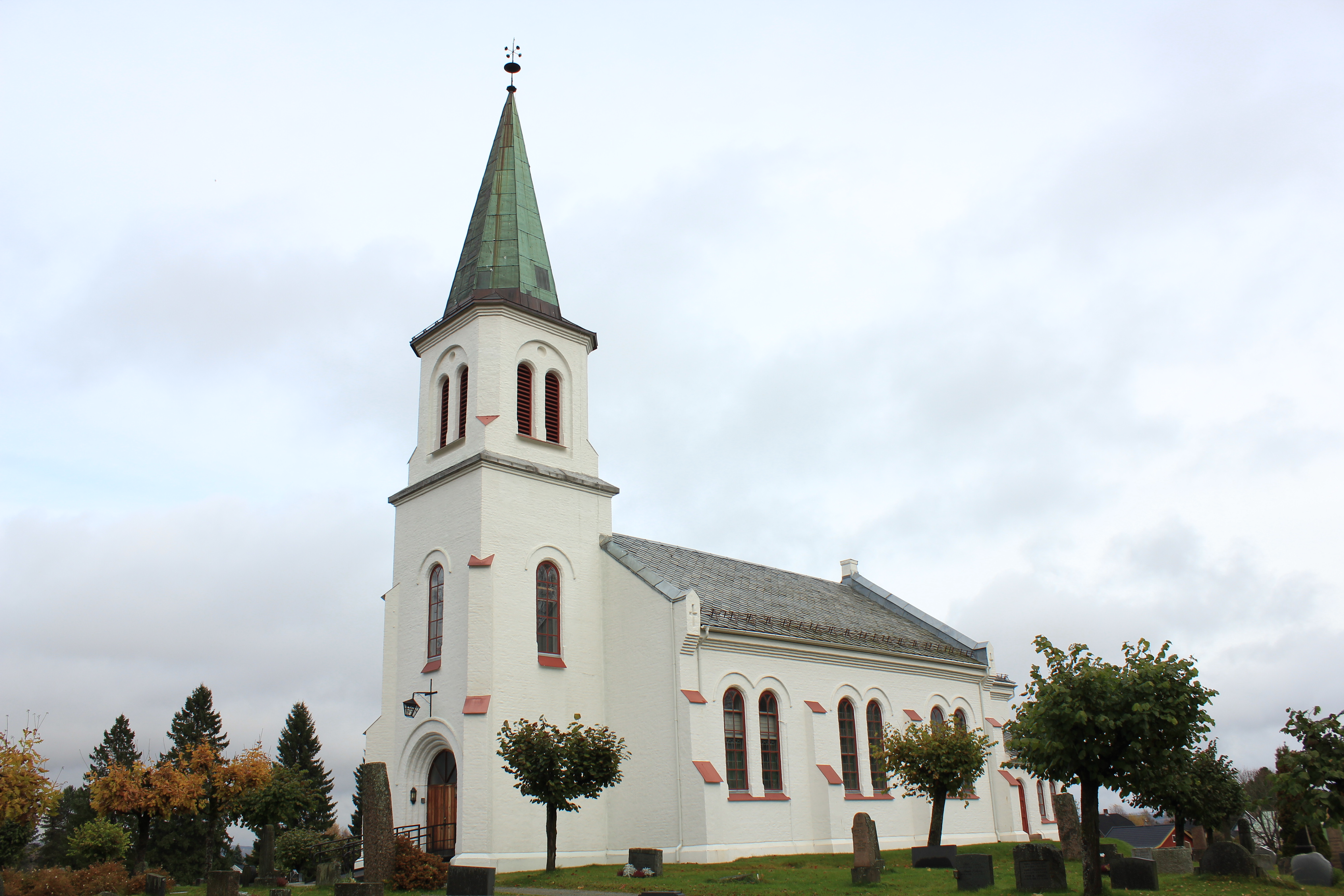 Råholt church in Akershus, Norway.